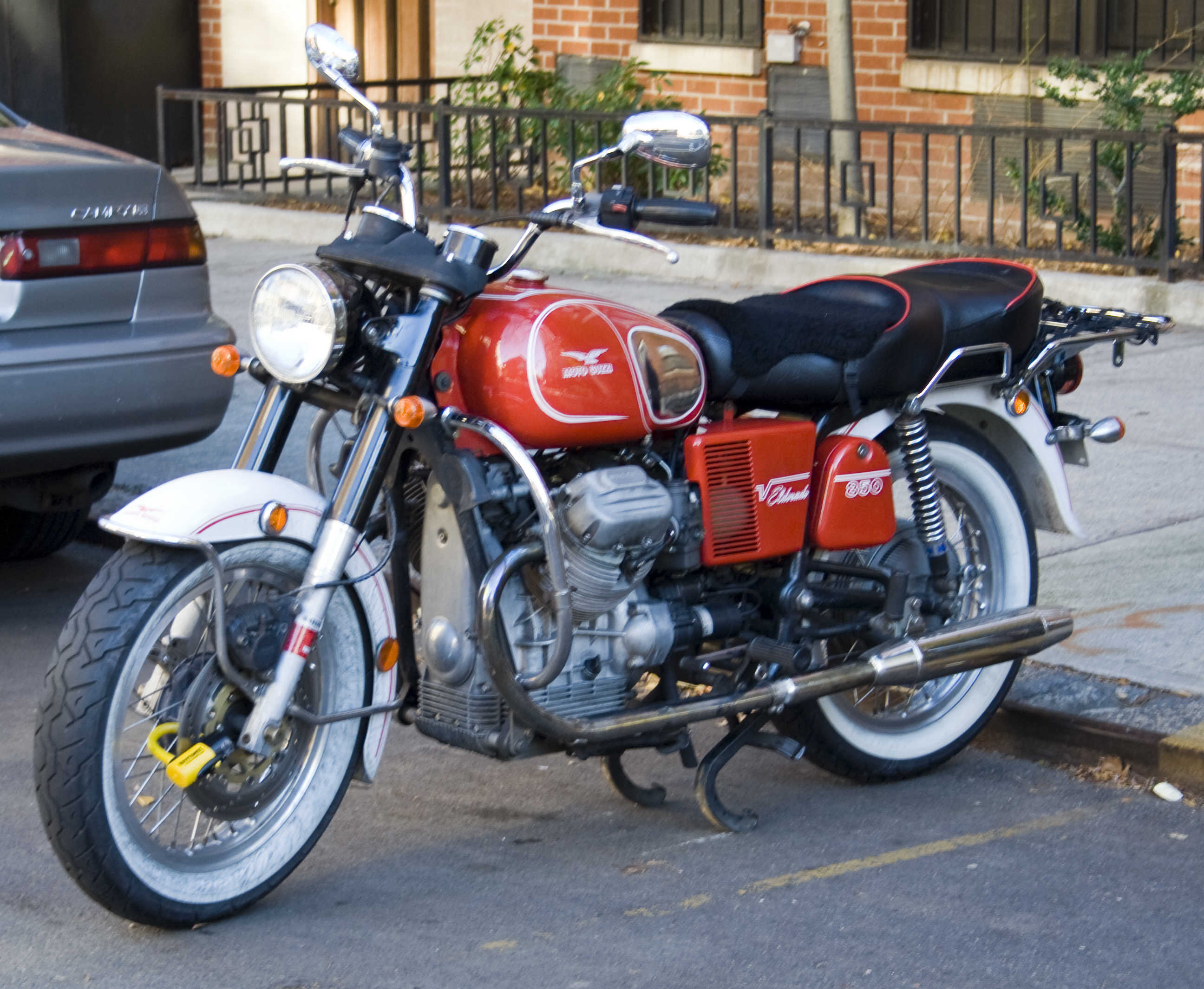 Seventies' Moto Guzzi Eldorado 850.